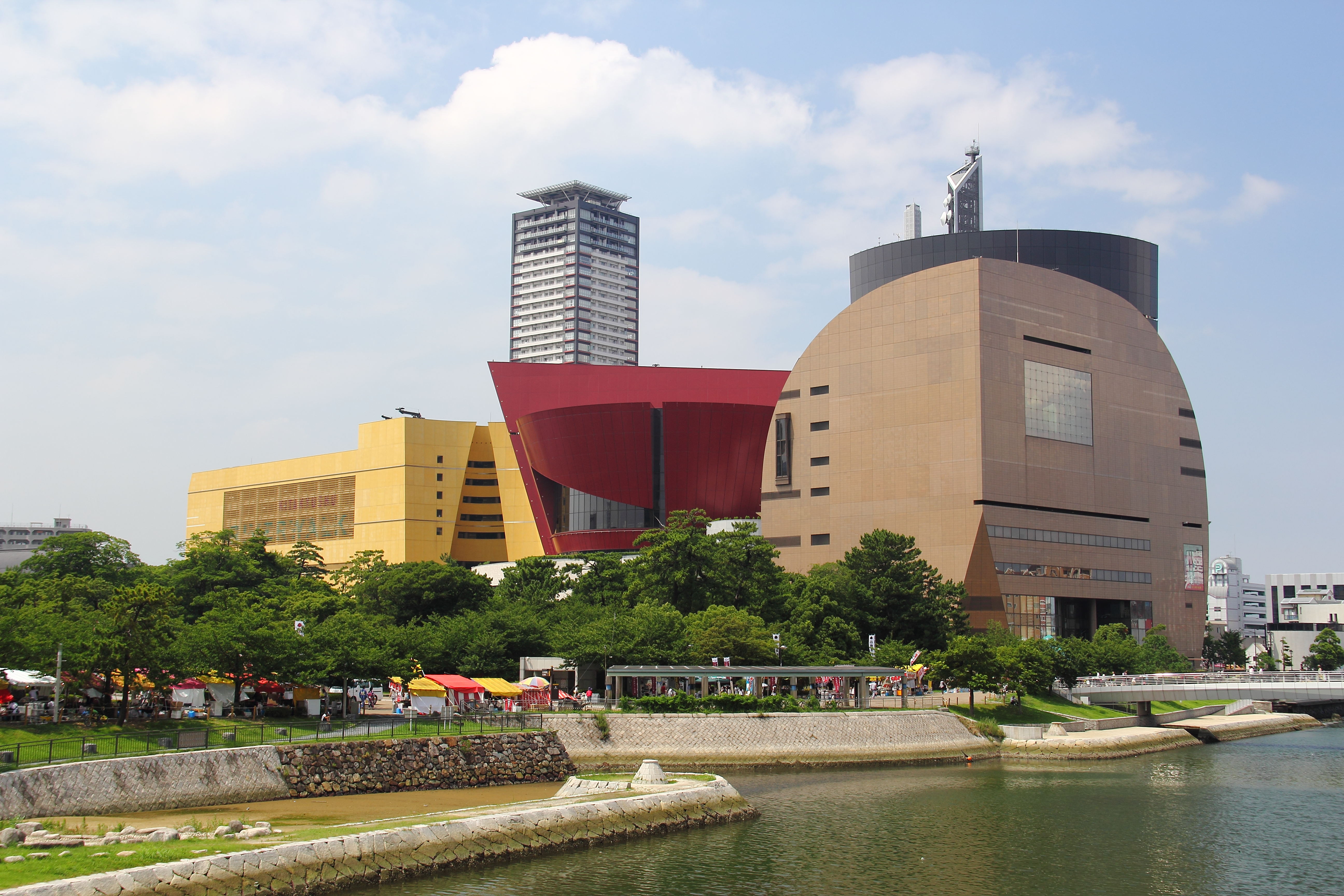 Riverwalk Kitakyushu Canon EOS 60D